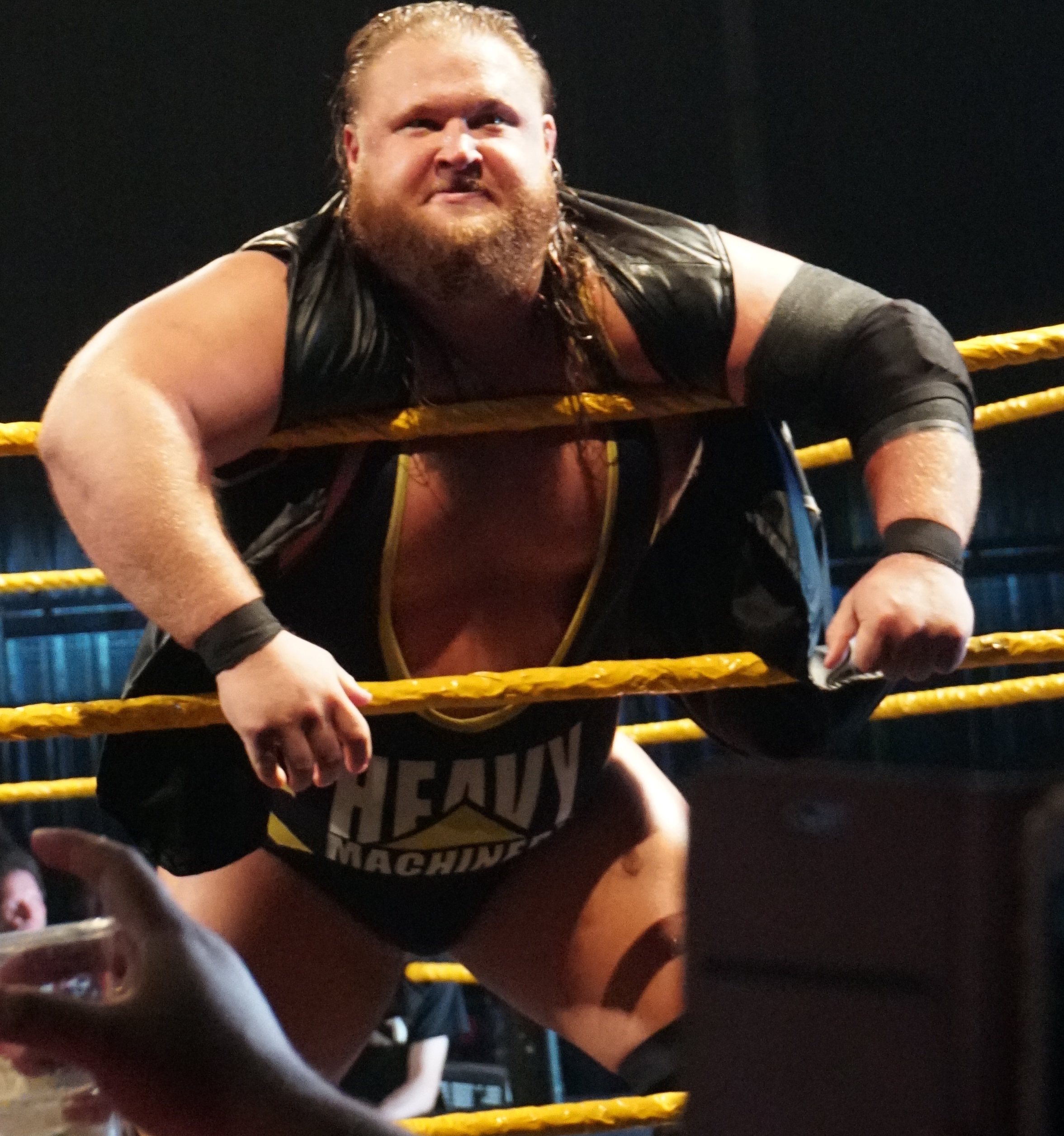 WWE Live 2018 - Antwerpen (NxT) - Otis Dozovic&Tucker Knight Vs Fabian Aichner&Marcel BarthelOtis Dozovic&Tucker Knight def. (Pin) Fabian Aichner&Marcel Barthel( Bonne nouvelle pour les inconditionnels du catch en Belgique : le mardi 12 juin 2018, les superstars de NXT donneront le meilleur d'eux-memes au Stadsschouwburg Antwerpen, lors d'un show exclusif au Benelux.WWE NXT est une emission televisee creee en 2010, durant laquelle de jeunes catcheurs sont formes par des veterans comme Chris Jericho et C.M. Punk. Tous partagent le meme reve : devenir la nouvelle star du catch. Le programme WWE NXT a tres vite rencontre un enorme succes. Aujourd'hui, WWE NXT est connu comme une veritable machine a talents. Pensez par exemple a Seth Rollins, qui etait encore chez nous pas plus tard que l'annee derniere pour WWE Live.Cette annee encore, vous aurez la chance de voir a l'oeuvre de nombreux nouveaux talents du catch ! A l'affiche, on trouve notamment Aleister Black, Adam Cole, Undisputed Era, Velveteen Dream, Ricochet, Nikki Cross, Shayna Baszler et Kairi Sane. Le line-up reste sujet a des changements de derniere minute.Attendez-vous a un show sensationnel et plein de tension ! )